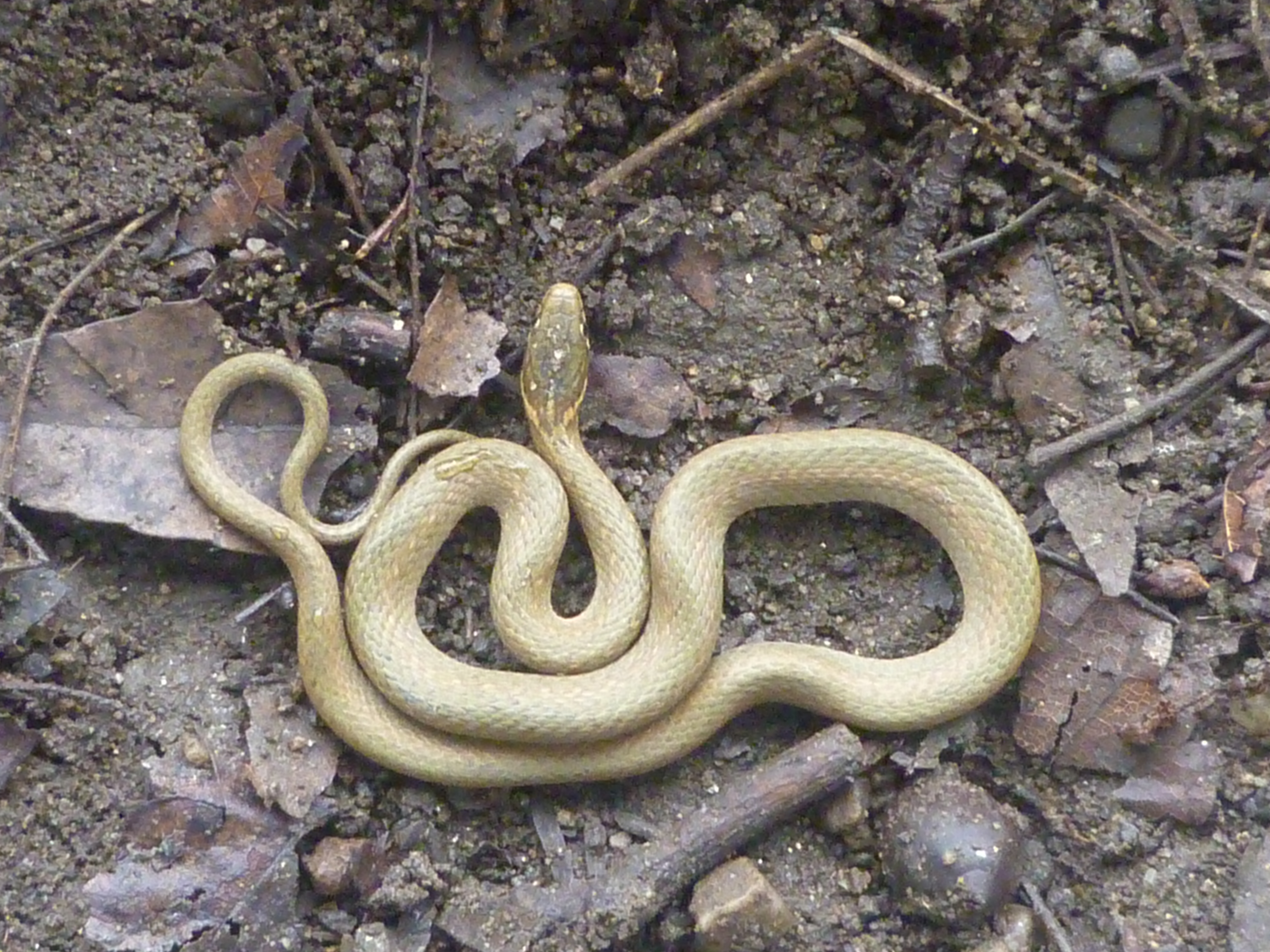 Amphiesma vibakari